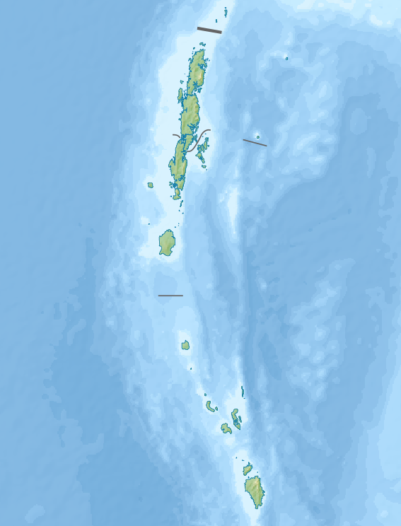 Relief map of teh Andaman and Nicobar Islands, India